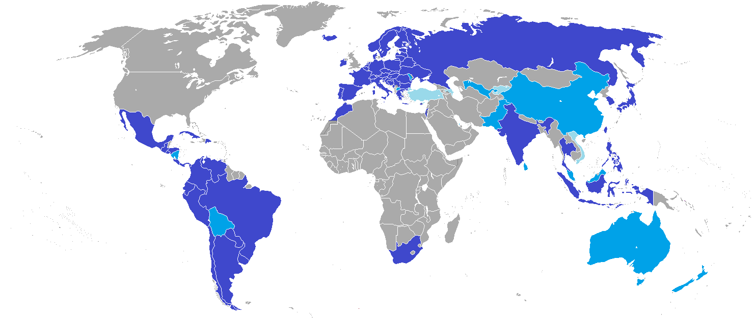 Member countries of the Fédération Cynologique Internationale (FCI) dark blue - full members lighter blue - associates light blue - countries with agreements